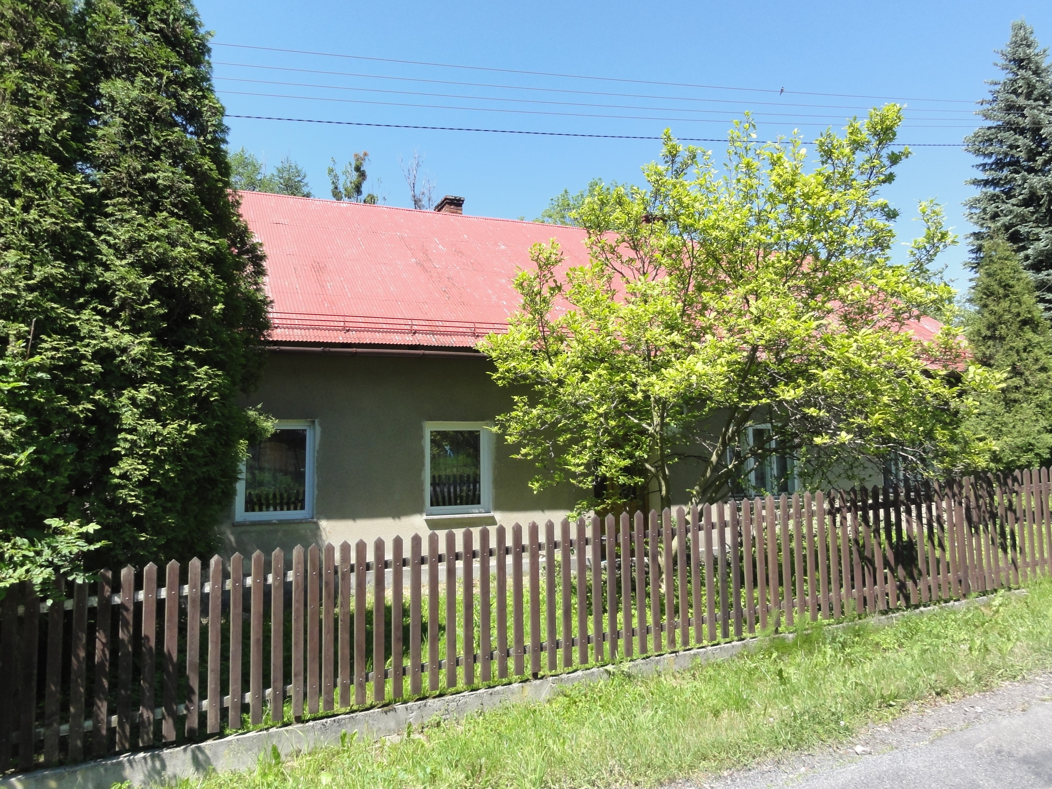 Seventh Day Adventist Third Part chapel in Kowale